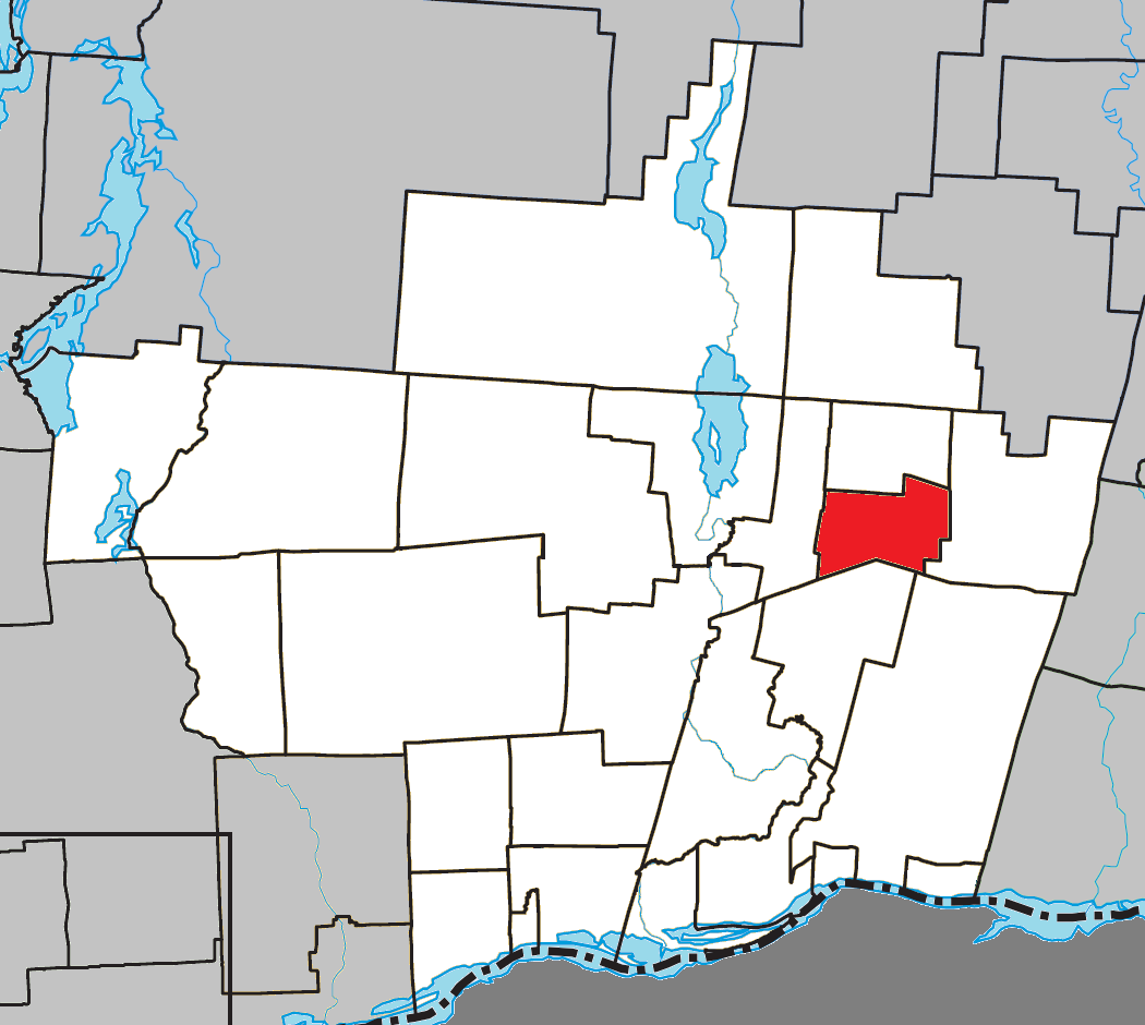 Location of Namur, Quebec within Papineau Regional County Municipality.